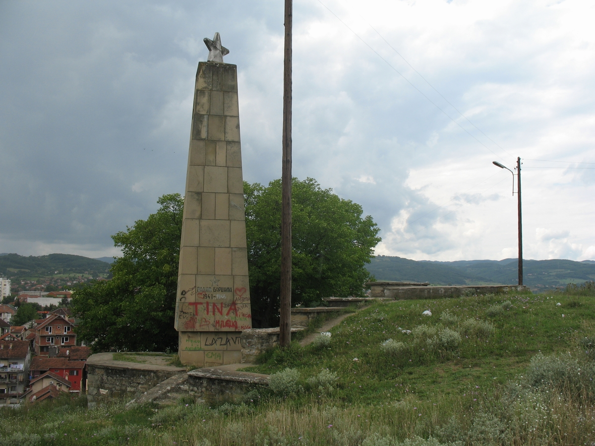 Kuršumlija, Serbia, monuments to WWII partisans, near Sveti Nikola monastery.